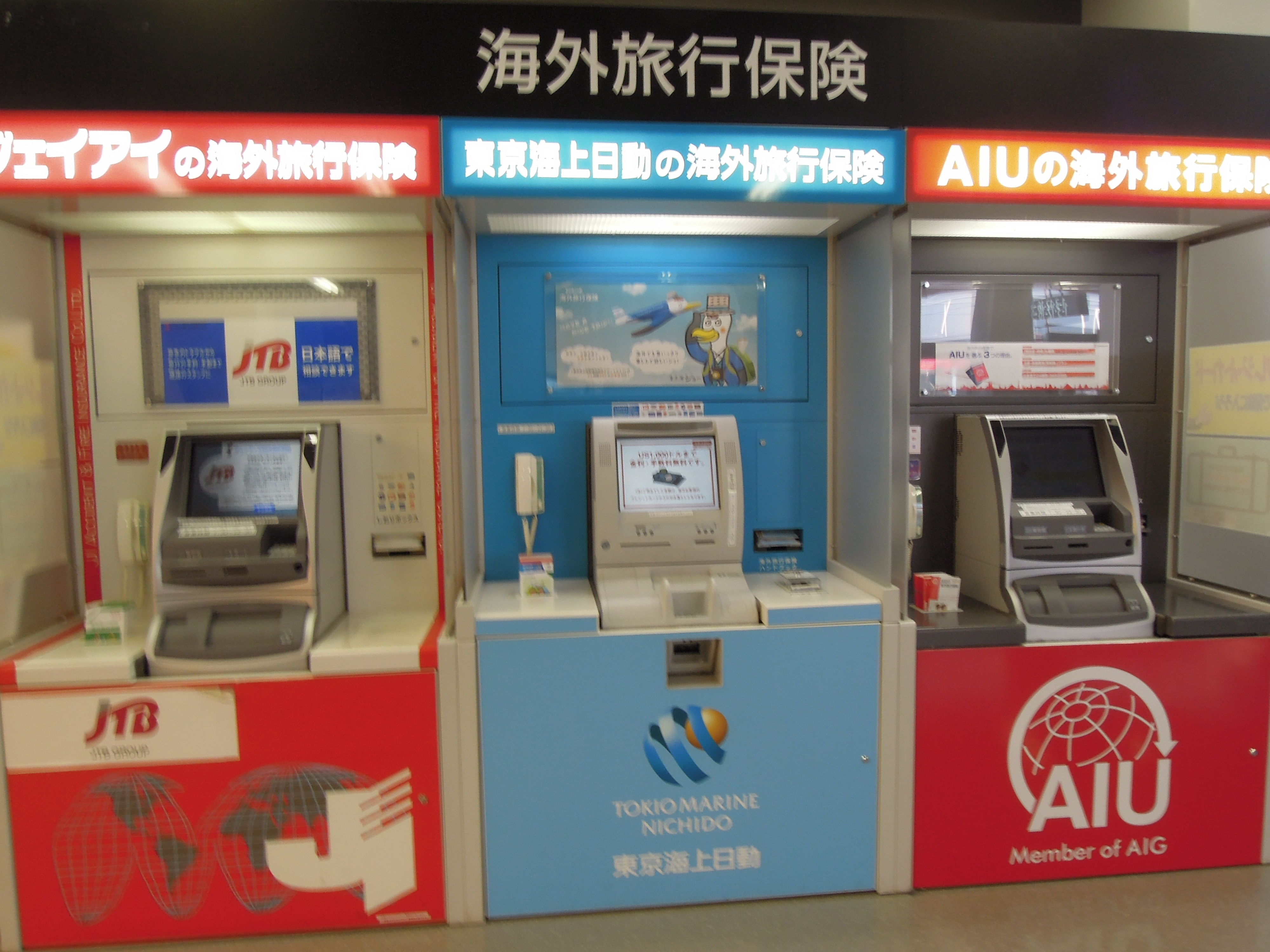 Travel insurance vending machines in a Japanese Airport